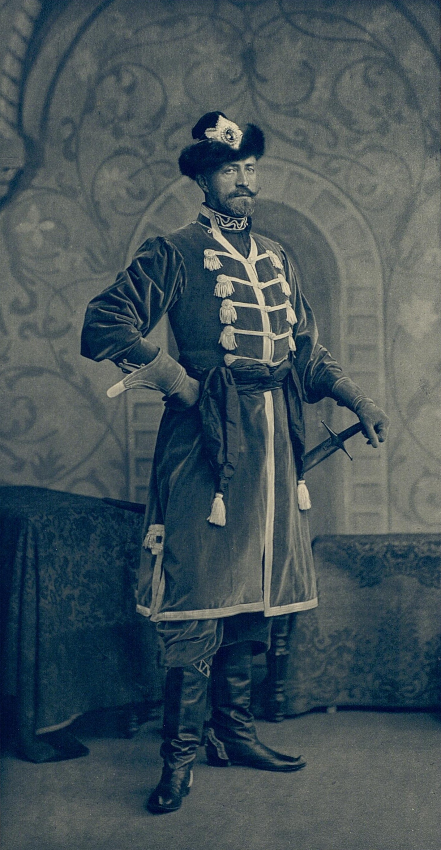 Grand Duke Nicholas Nikolaevich the Younger